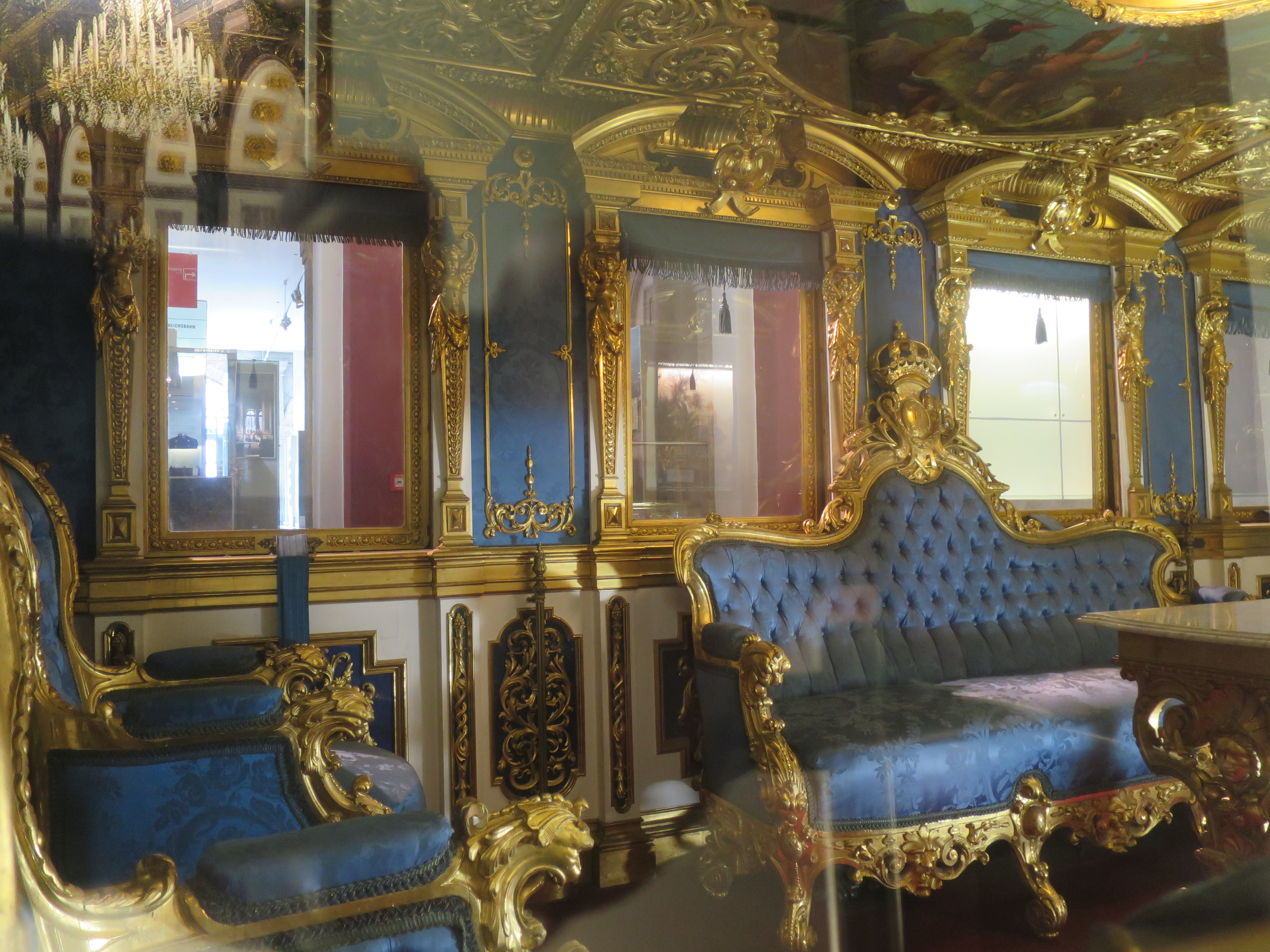 Interior of royal Saloon of Ludwig II., King of Bavaria